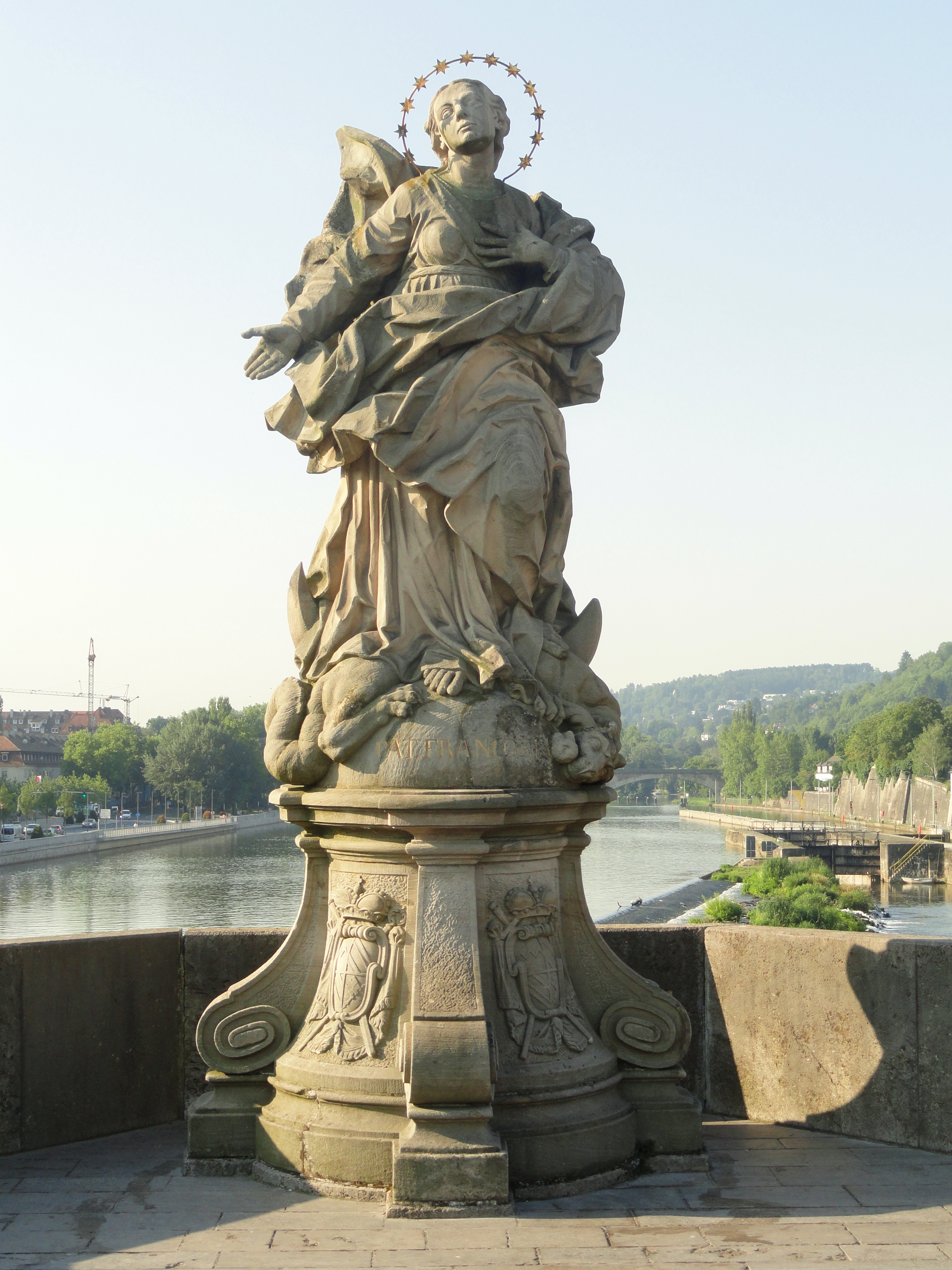 Statue on the Alte Mainbrücke in Würzburg, Germany.